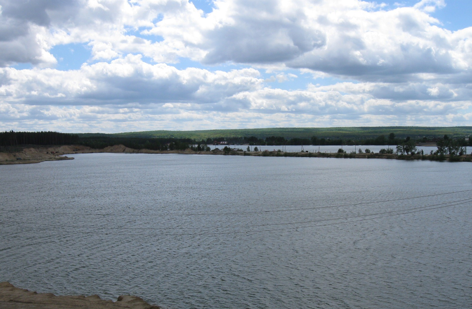 Nahorievske Lake, Bezliudivka